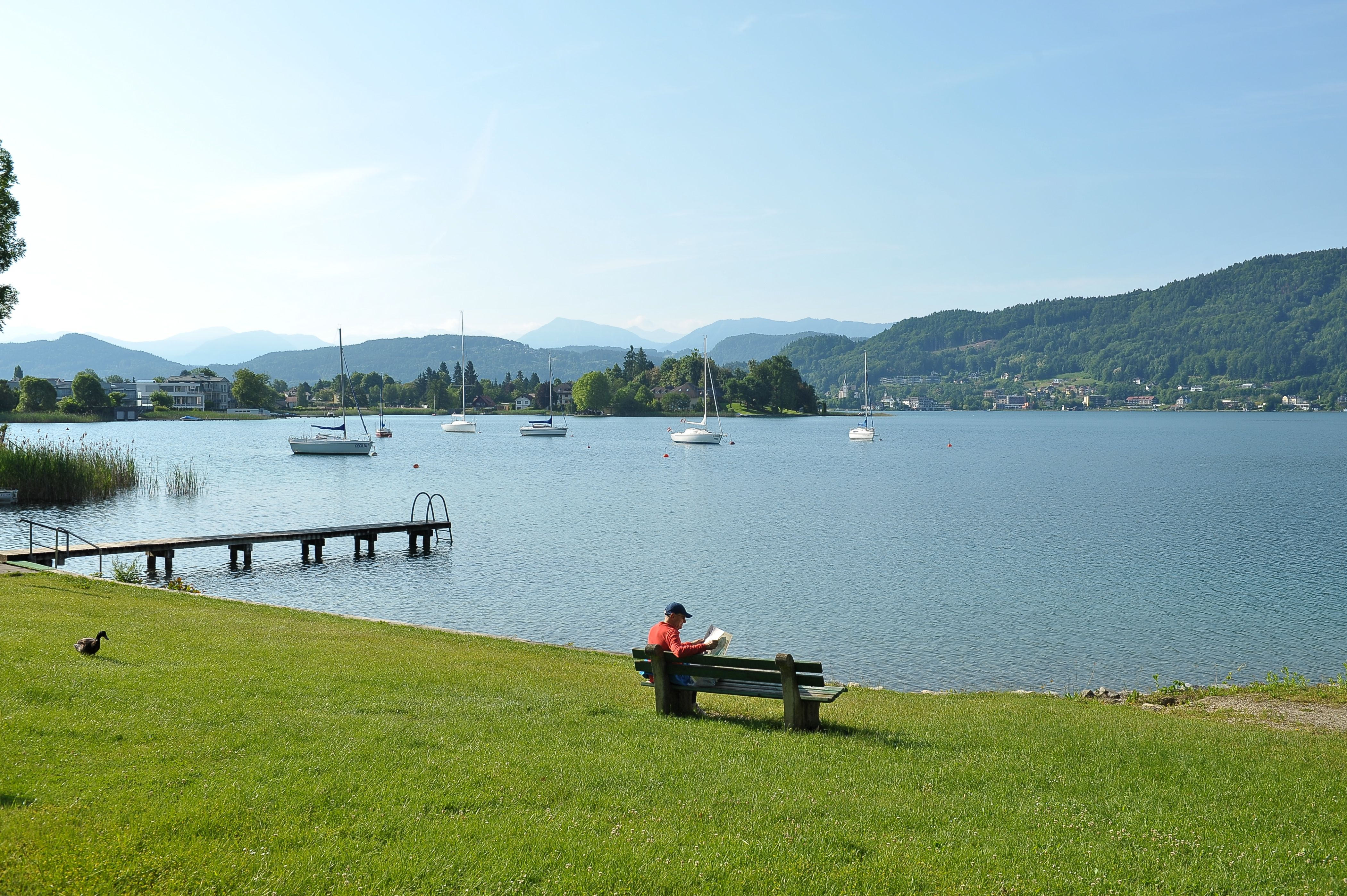 Edelweiß bath with gratis entrance on main street, municipality Pörtschach am Wörther See, district Klagenfurt Land, Carinthia, Austria, EU